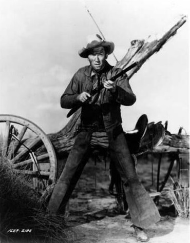 James Stewart in American western film Winchester '73 (1950). See also film still. No copyright notice.